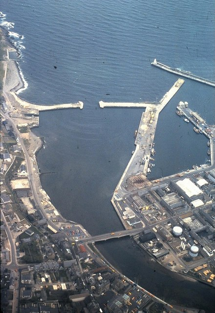 River Basin, Wick (1980) With the Harbour Bridge in the foreground, and Poultney Inner Harbour on the right.